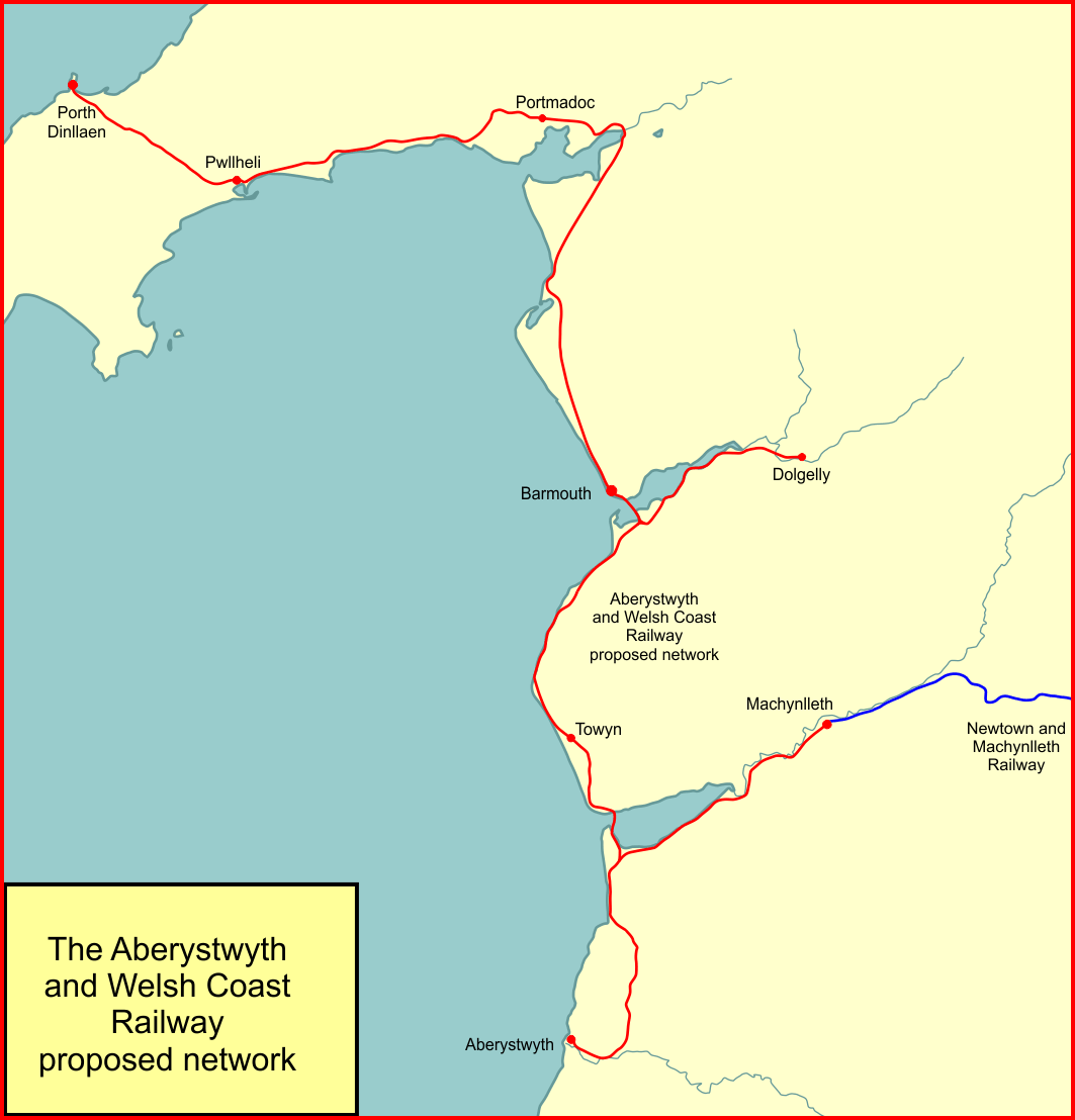 The intended network of the Aberystwyth and Welsh Coast Railway, Wales. It was much modified in construction.